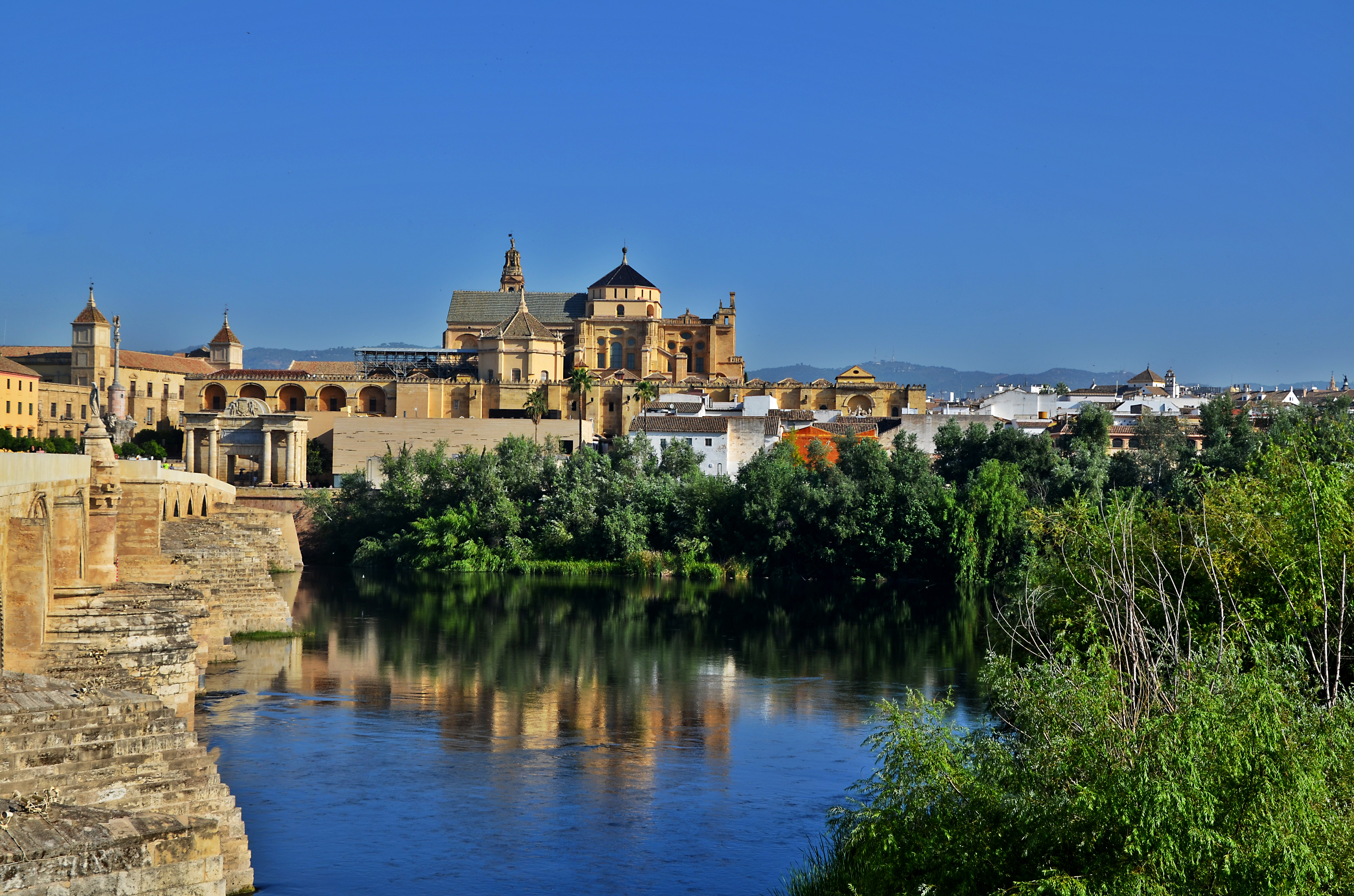 Cordoba Mosque across river.